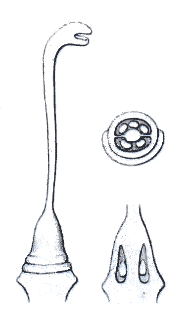 Gynoecium of Brunfelia latifolia, cropped from Fig. 2 of Johann Baptist Emanuel Pohl: Plantarum Brasiliae icones et descriptiones hactenus ineditae. Vol. 1 (1827).